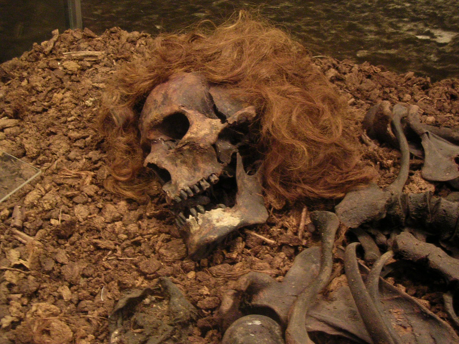 The Bocksten Man is the remains of a mediæval male body found in a bog in Varberg Municipality, Sweden. It is one of the best-preserved finds in Europe from that era and is exhibited at the County Museum of Halland. The man had been killed and knocked to the bottom of a lake which later became a bog. The bog where the body was found lies about 15 miles east of Varberg on the west coast of Sweden, close to the most important medieval road in the area: the Via Regia.